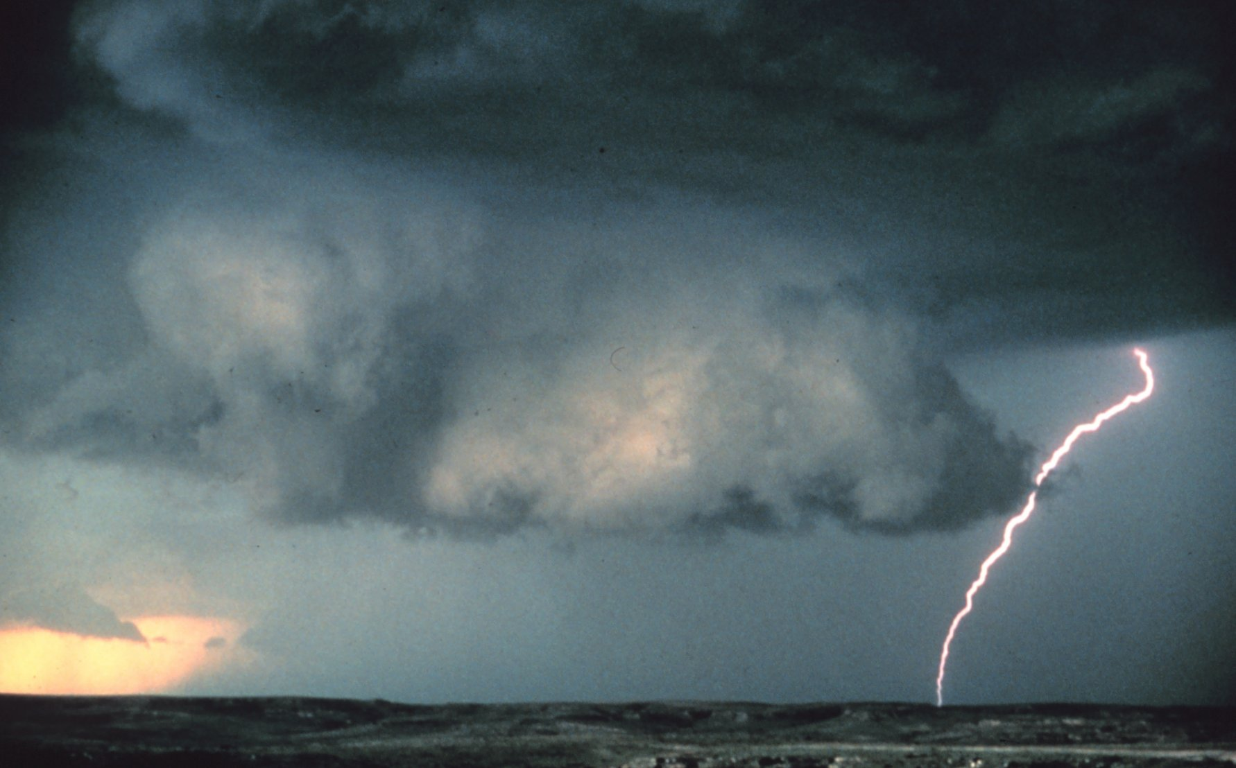 Wall cloud with lightning, Miami, Texas. Rotated version of: Image:Wall cloud with lightning - NOAA.jpg